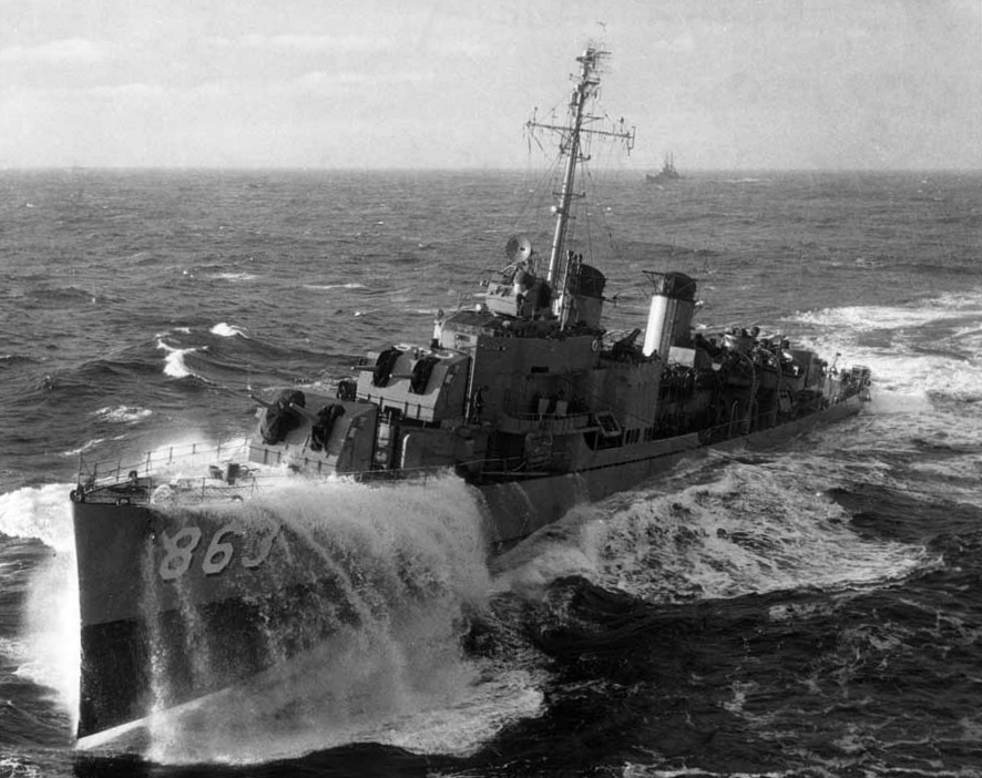 The U.S. Navy destroyer USS Steinaker (DD-863) in the North Atlantic in 1951. The photo was taken from the aircraft carrier USS Franklin D. Roosevelt (CVB-42).